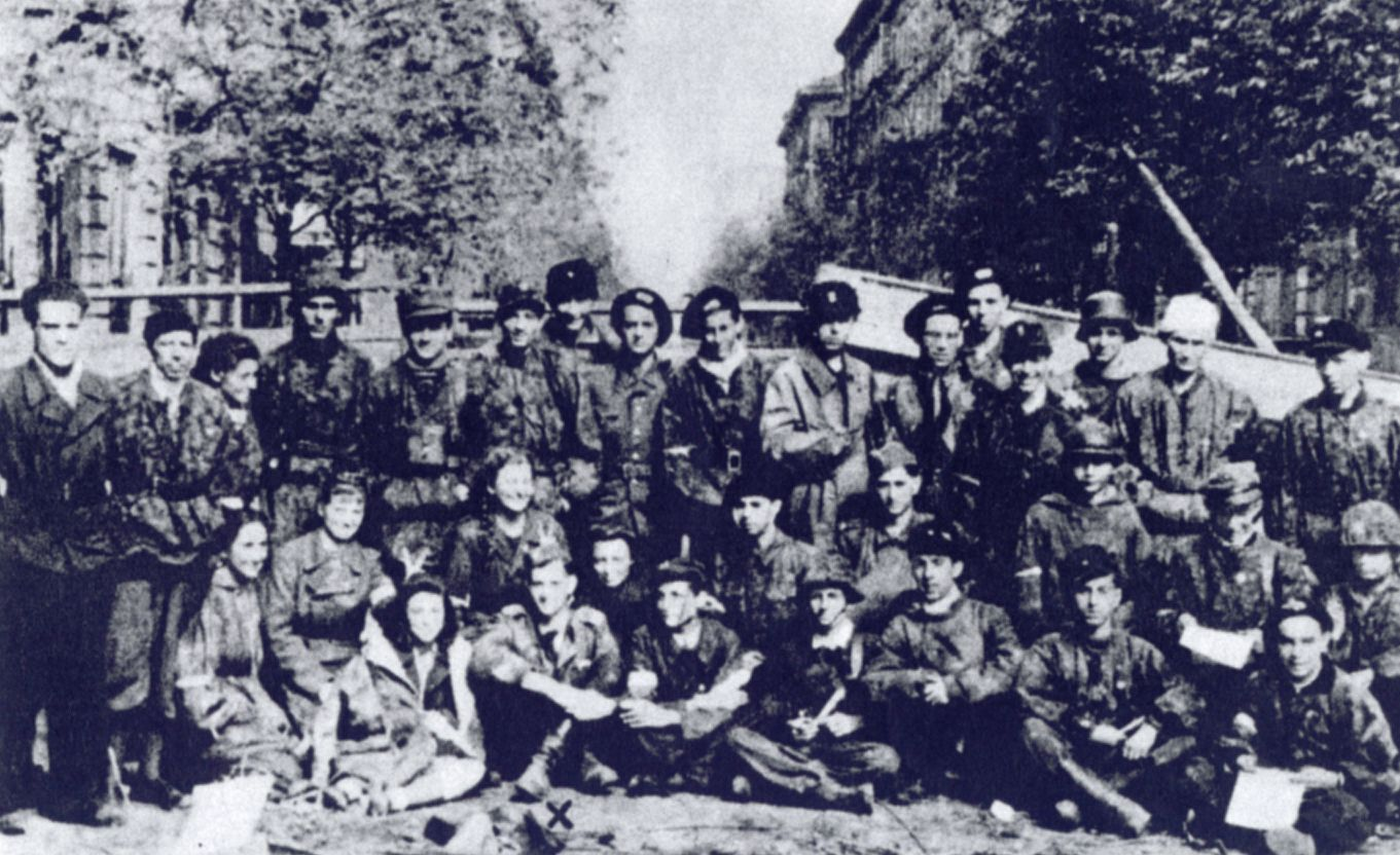 WarsawUprising: Soldiers from Scout company of batallion "Gustaw", from scout communication platoon (sitting on the right) and Paramedic Platoon (sitting on the left) after exiting Old Town and canal crossing to Śródmieście. In the first raw second from left sits master scout Tadeusz Iłłakowicz "Krakowski" (marked with X), commander of a unit from Podwale.